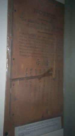 Notice re 'The Aboriginals Protection and Restriction of the Sale of Opium Act 1897' from Taroom, Qld, written in English and Chinese. On display at Miles & District Historical Village. Act had wide social significance as its practical outcome was oppressive and restricted the rights and freedoms of Aboriginal people.